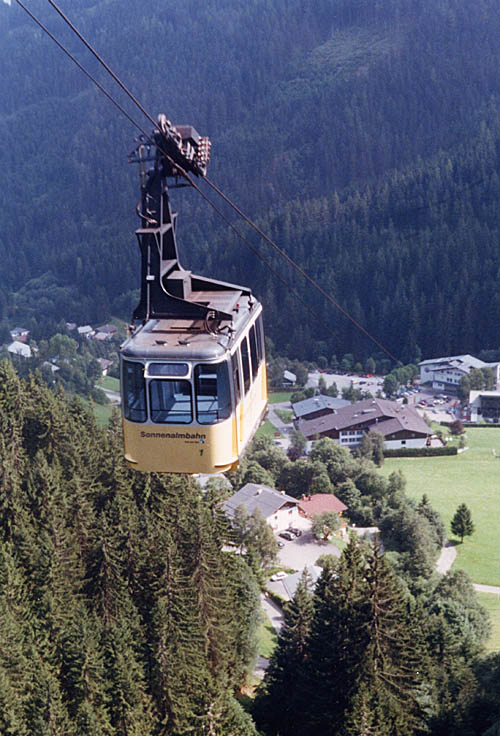 The Sonnenalmbahn cable car at Zell am See in the Austrian Alps. N.B. This model is not used anymore.